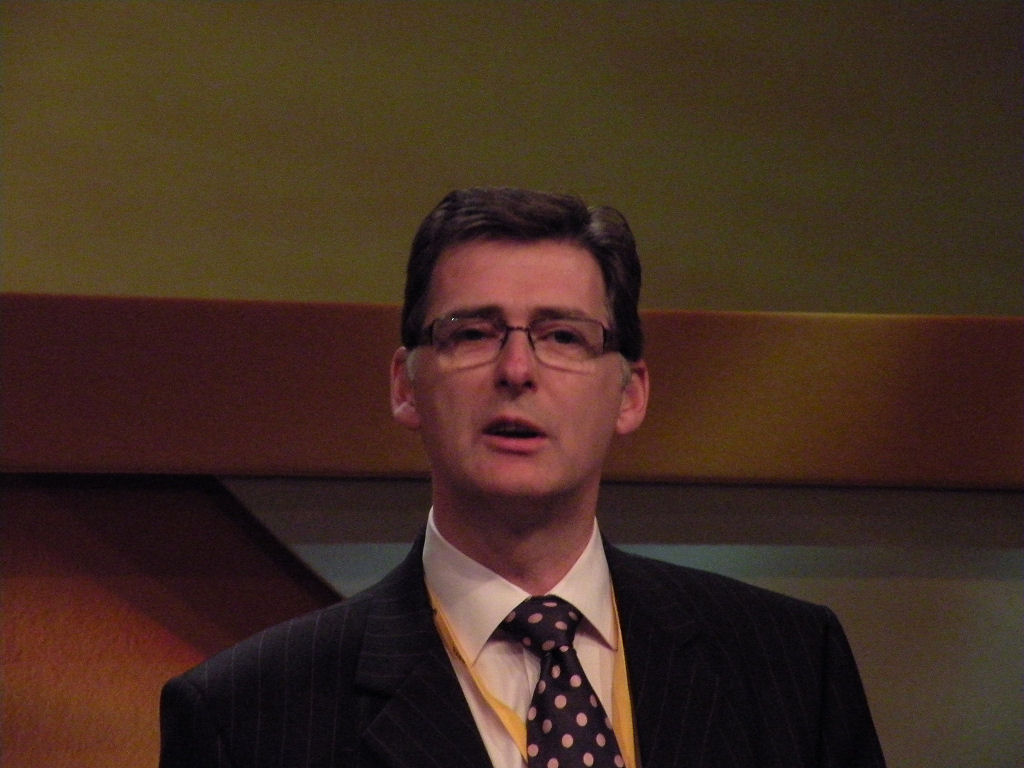 Michael Crockart MP addressing the 2011 Liberal Democrats autumn conference in the International Convention Centre, Birmingham